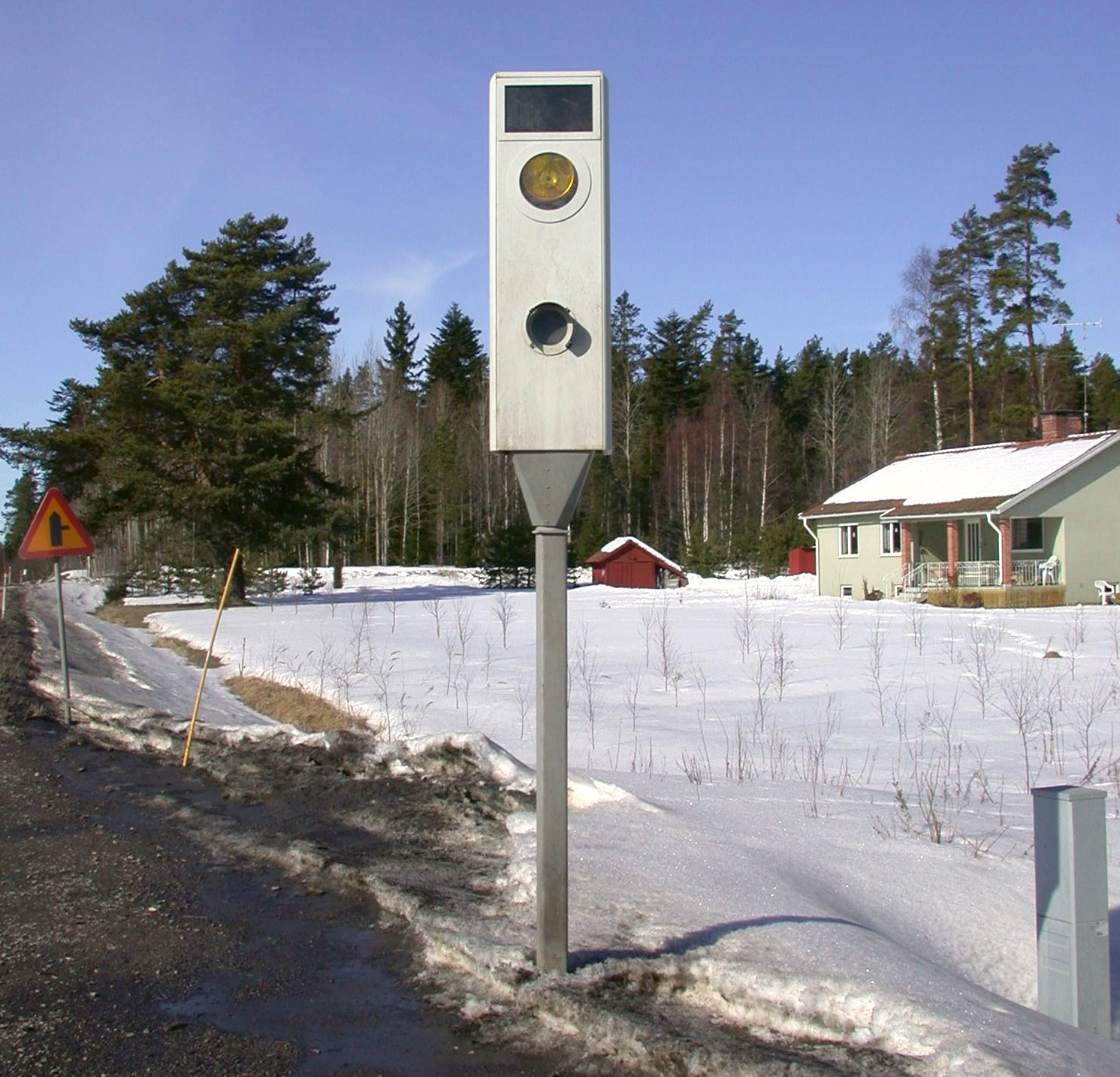 Older model of road-rule enforcement camera (speed camera), Sweden. Photo: Riggwelter, March 26, 2006.